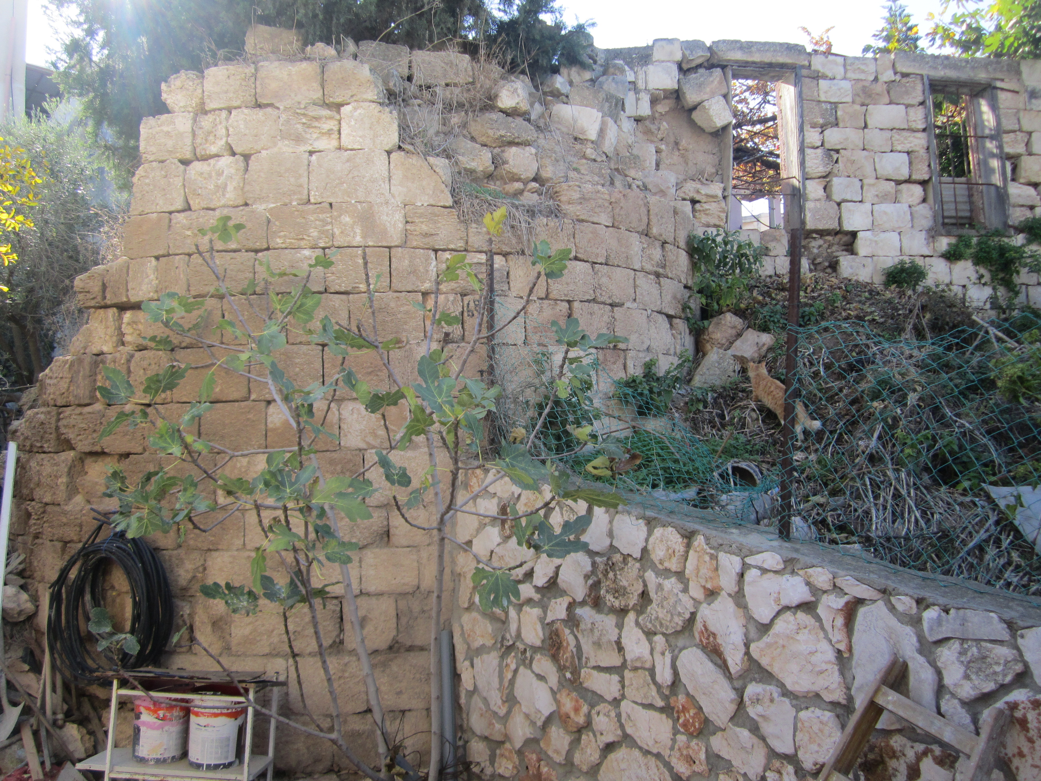 ruins of ancient wall in ibbilin